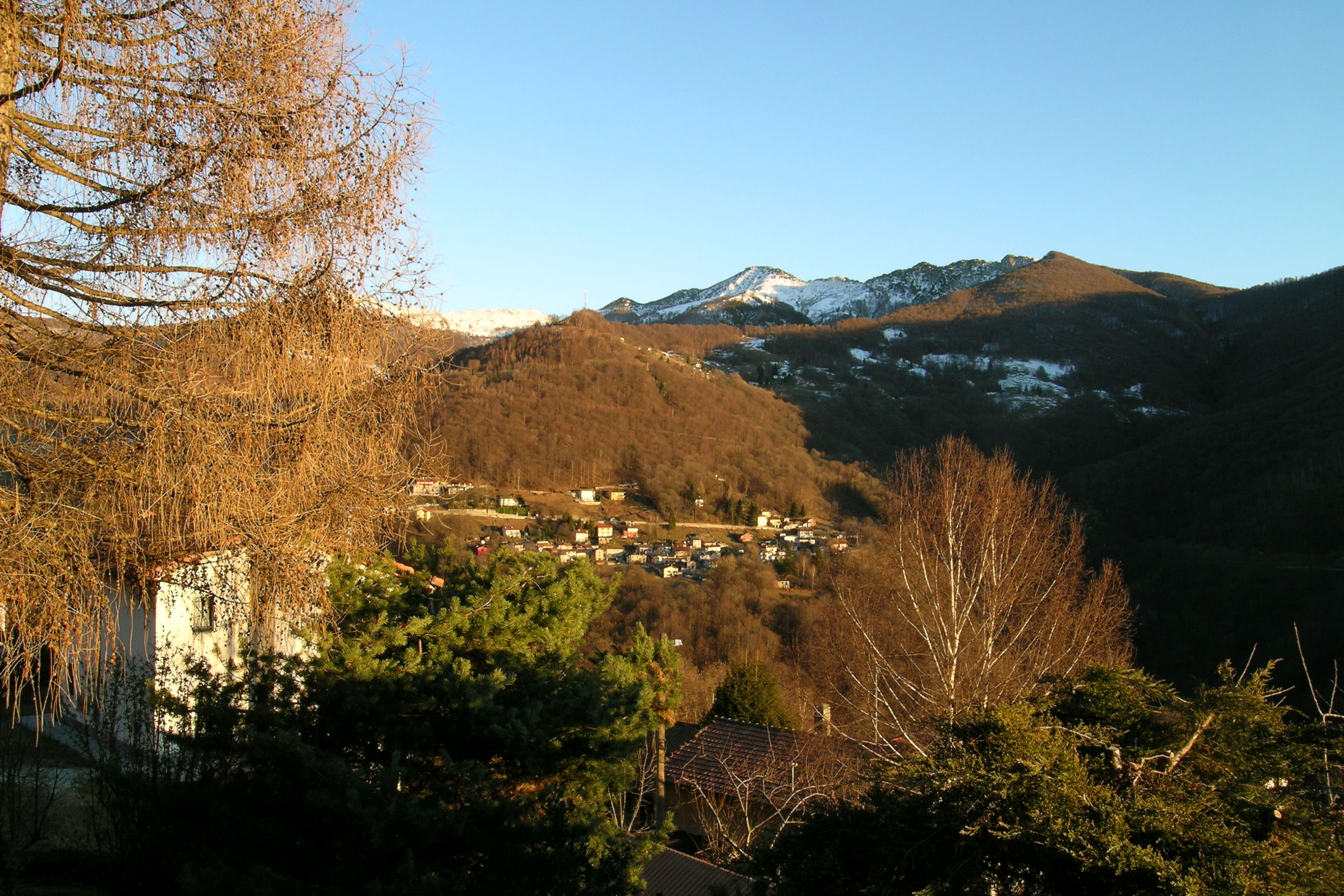 View over the former municipality of Isone, including the village of Piandera and the municipality of Cimadera